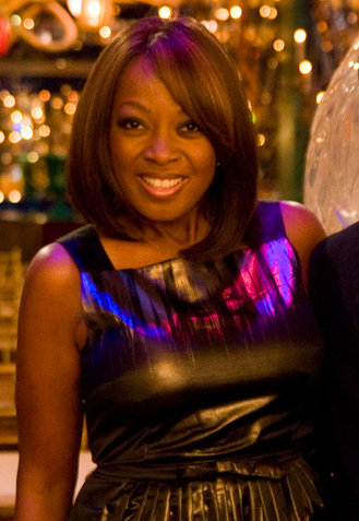 Star Jones at a Hudson Union Society event in April 2011.